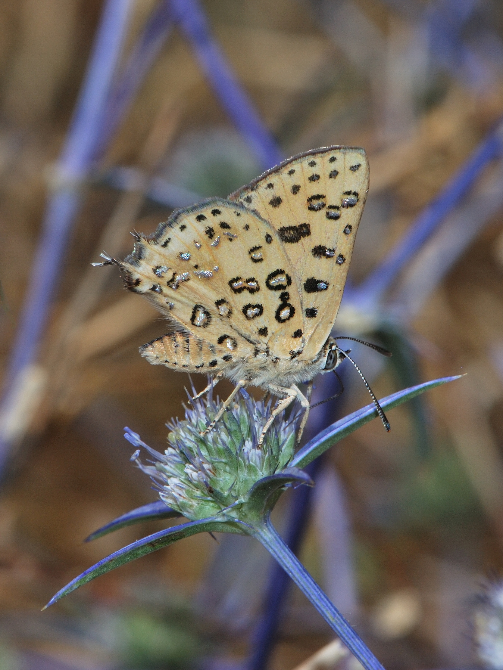 Cigaritis cilissa foraging on Eryngium creticum, Mount Meron, Israel, July 10, 2011.